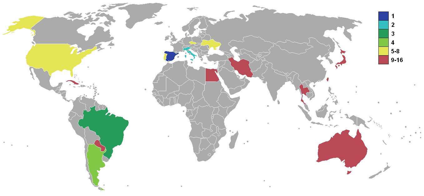 2004 FIFA Futsal World Championship